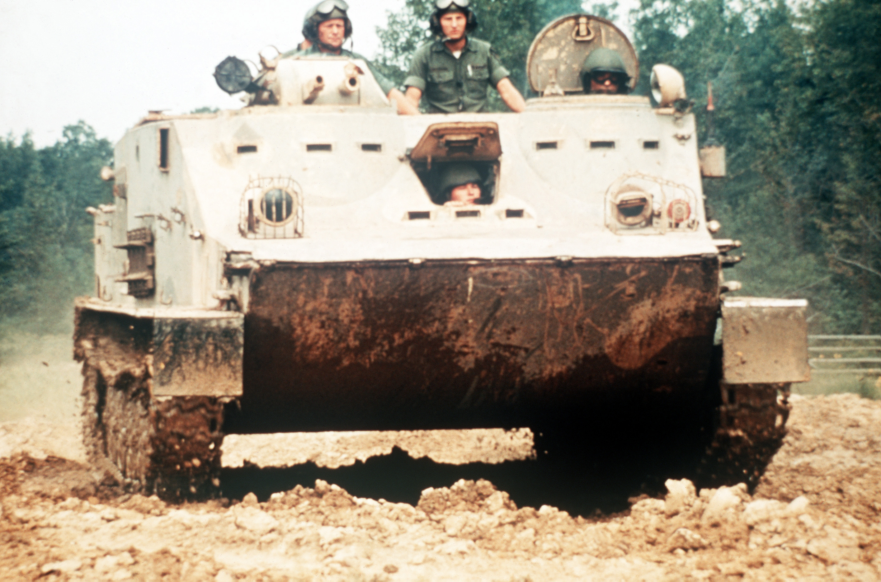 Right front view of a Czechoslovakian-made OT-62B armored personnel carrier.